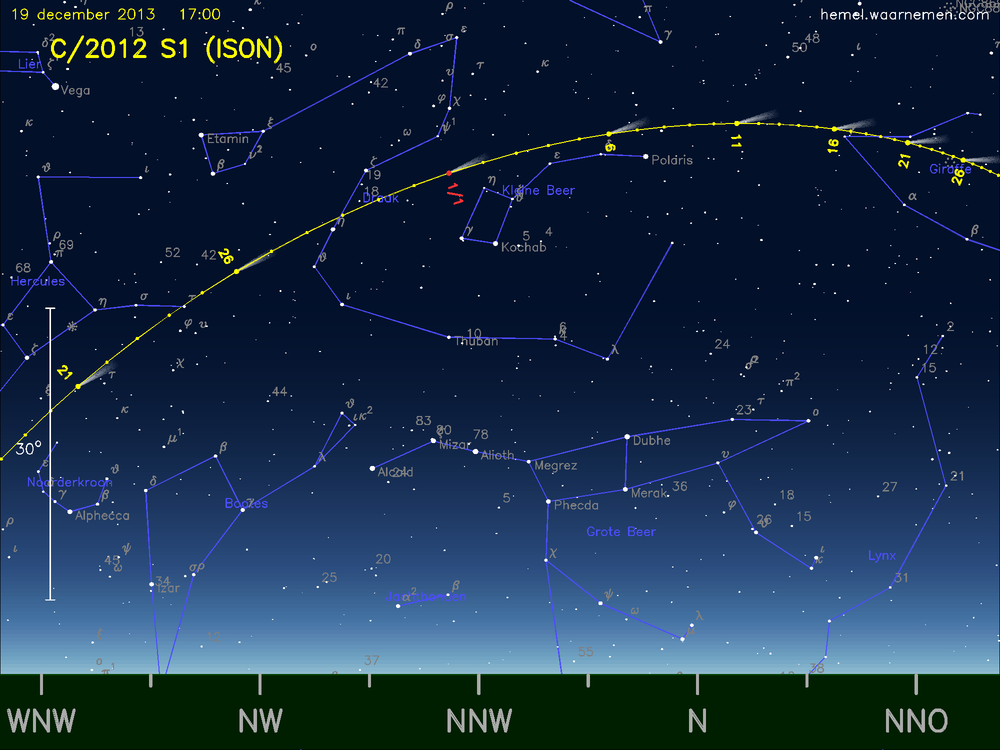 The comet C/2012 S1 (ISON) in the (roughly northwestern) evening sky for an observer in the Netherlands or Belgium, in December 2013 and January 2014. The position of the comet with respect to the background stars is correct at all times. The horizon, twilight and the positions of the planets are (roughly) valid only for 19 Dec 2013, 17:00 CET, the time indicated in the map. The comet tails are schematic and give a rough indication of the orientation of the actual tail, but not of its actual length or appearance. The yellow labels show the day of month for which a comet is drawn, red ones the first day of a month.